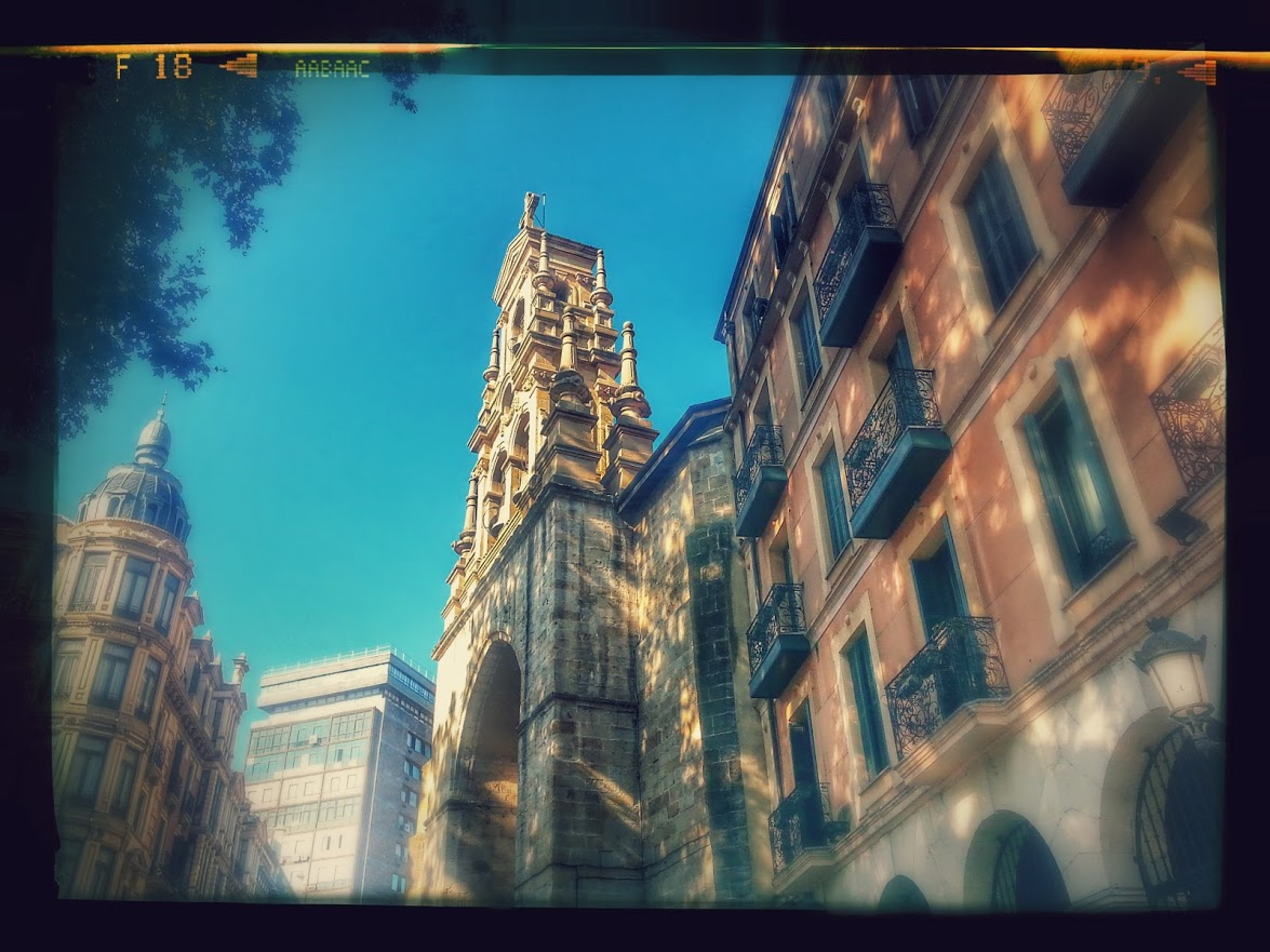 San Bizente Martyr church in Abando. Bilbao. Biscay